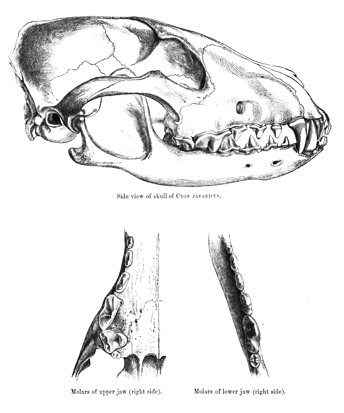 Javan dhole skull